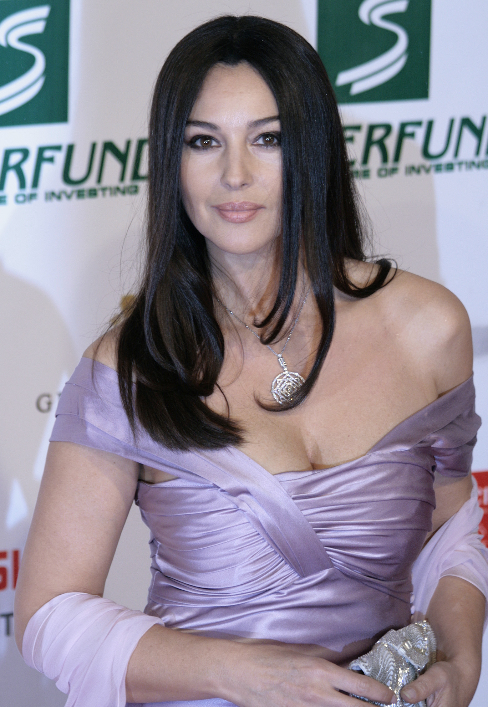 Monica Bellucci at the Women's World Award 2009 (Wiener Stadthalle, Vienna, Austria).